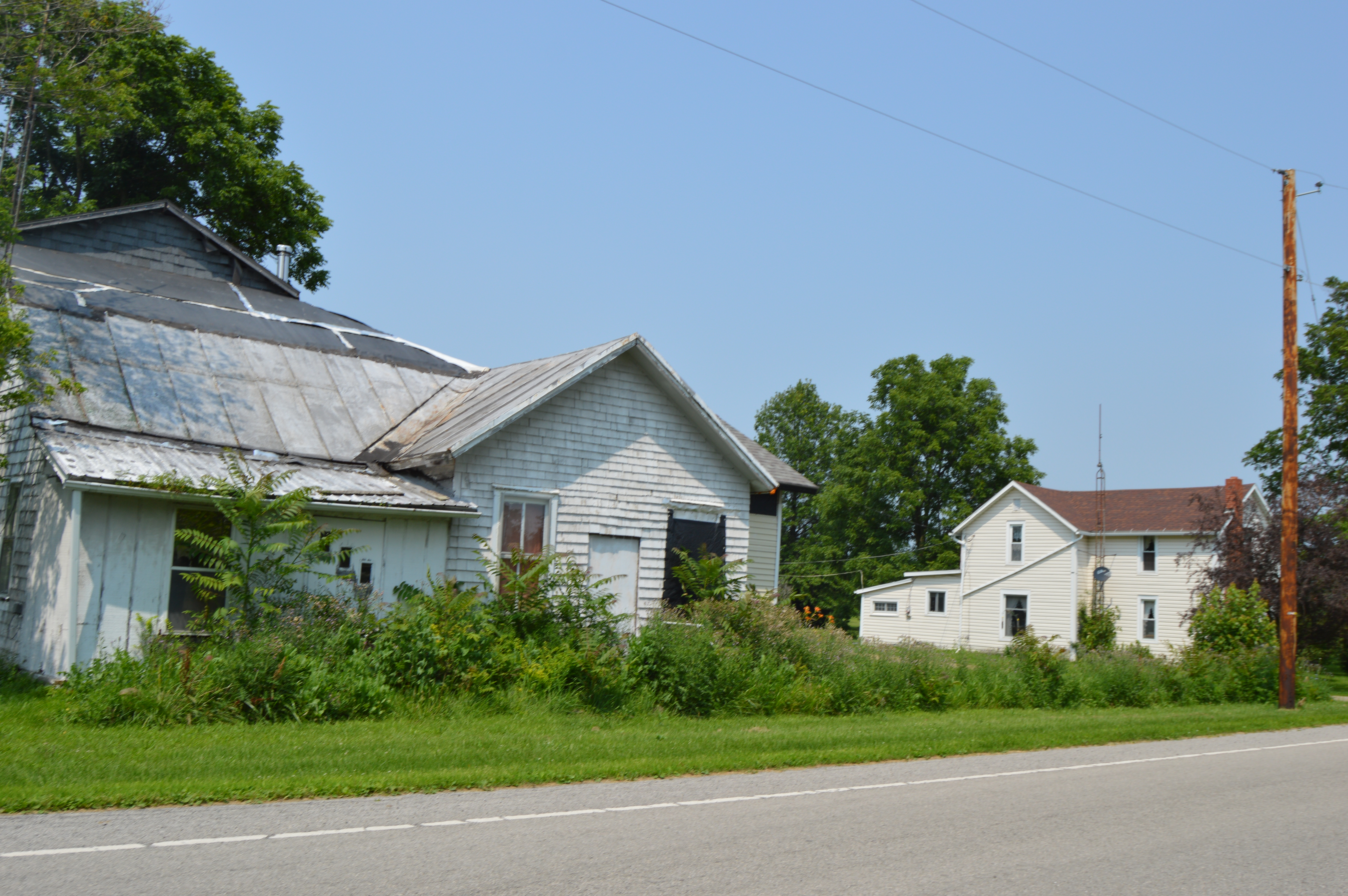 Houses on the northern side of Old U.S. Route 30 east of County Road 61 at New Stark in Van Buren Township, Hancock County, Ohio, United States.